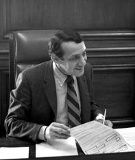 Cropped image of Image:Harvey Milk in 1978 at Mayor Moscone's Desk.jpg to serve as a possible picture for the infobox in the Harvey Milk article.